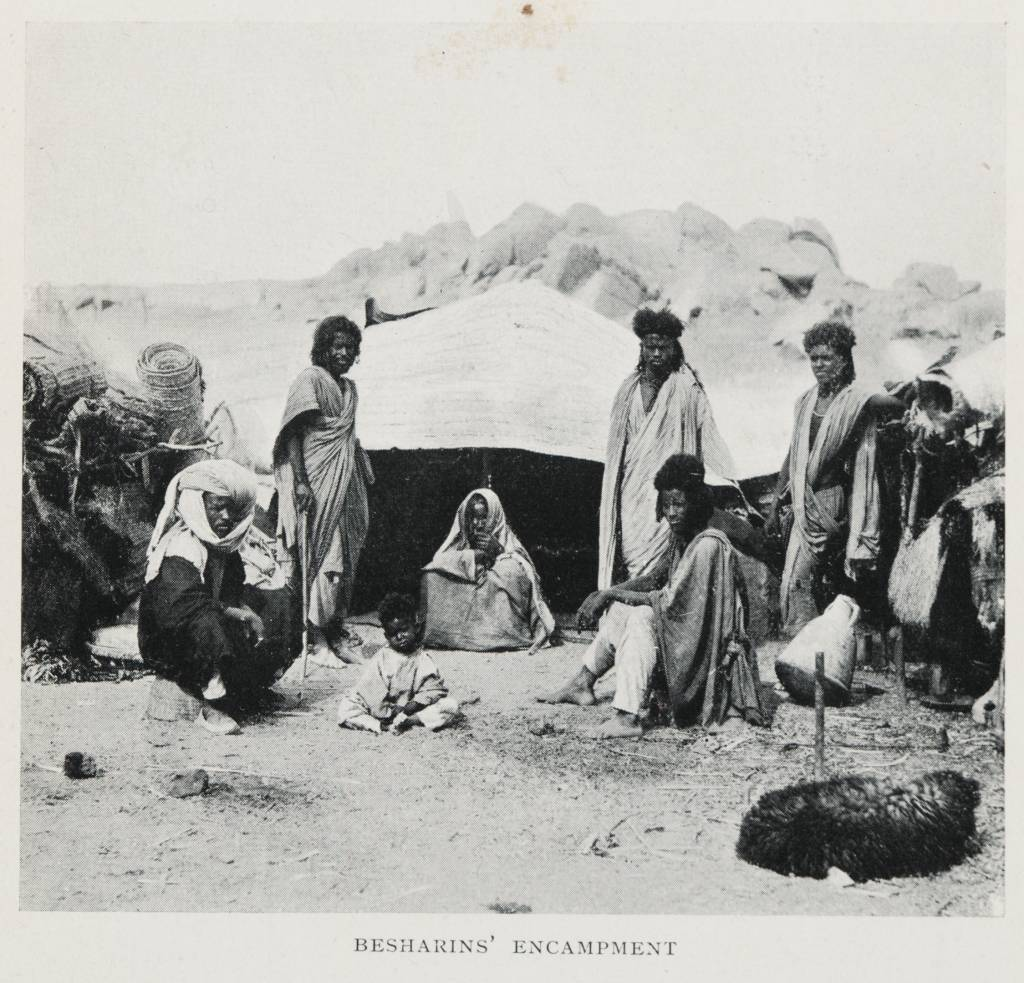 A group of Besharin people stands in front of a tent.